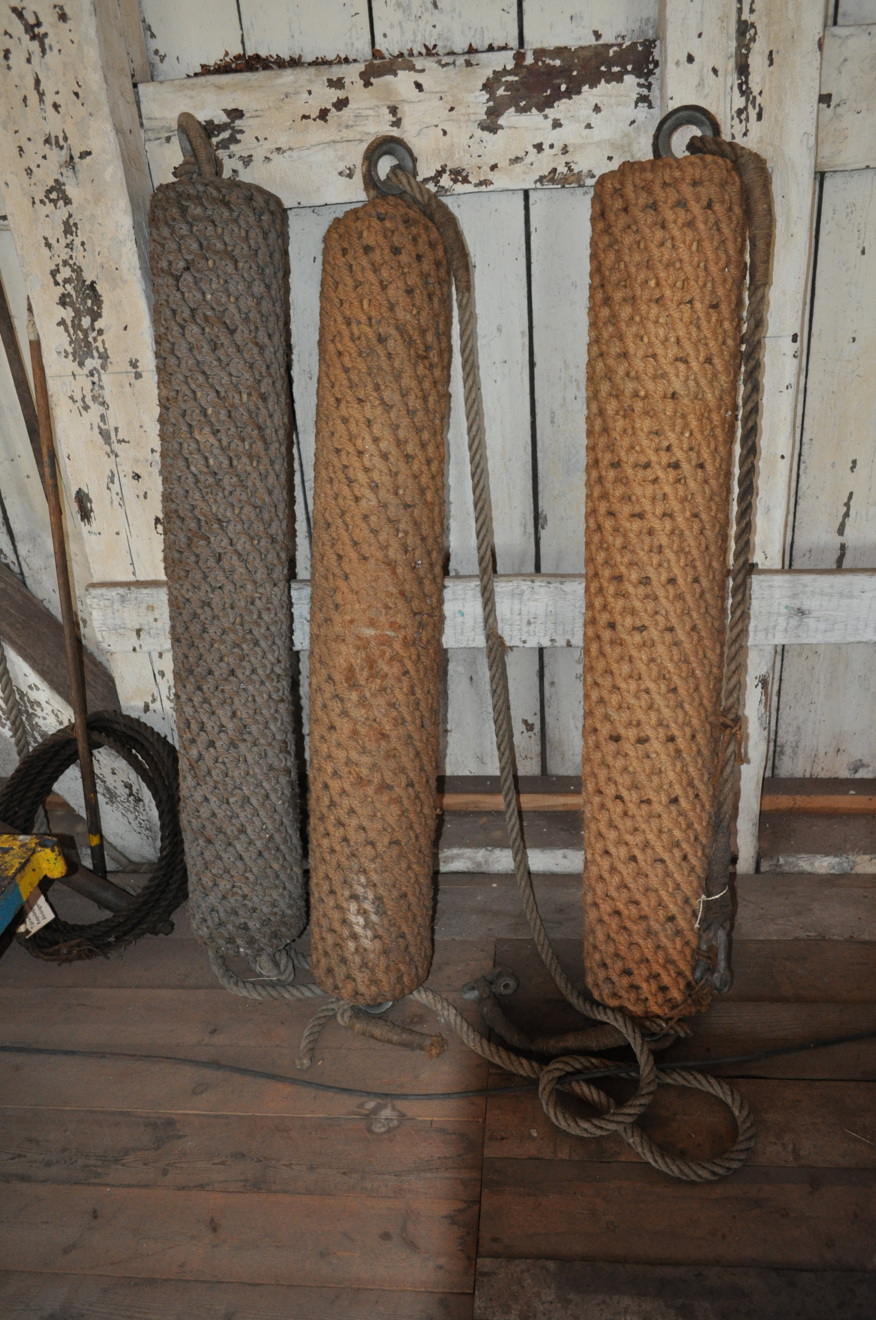 Fenders from Karlskrona ropewalk - repslagarbana.